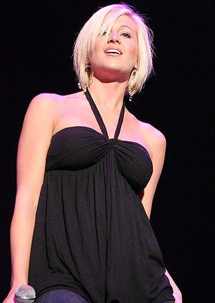 American Idol contestant Kellie Pickler performing live.